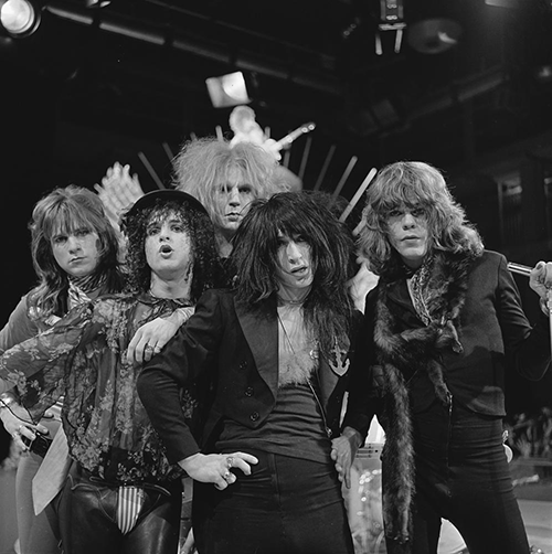 New York Dolls in AVRO's TopPop (Dutch television show) in 1973